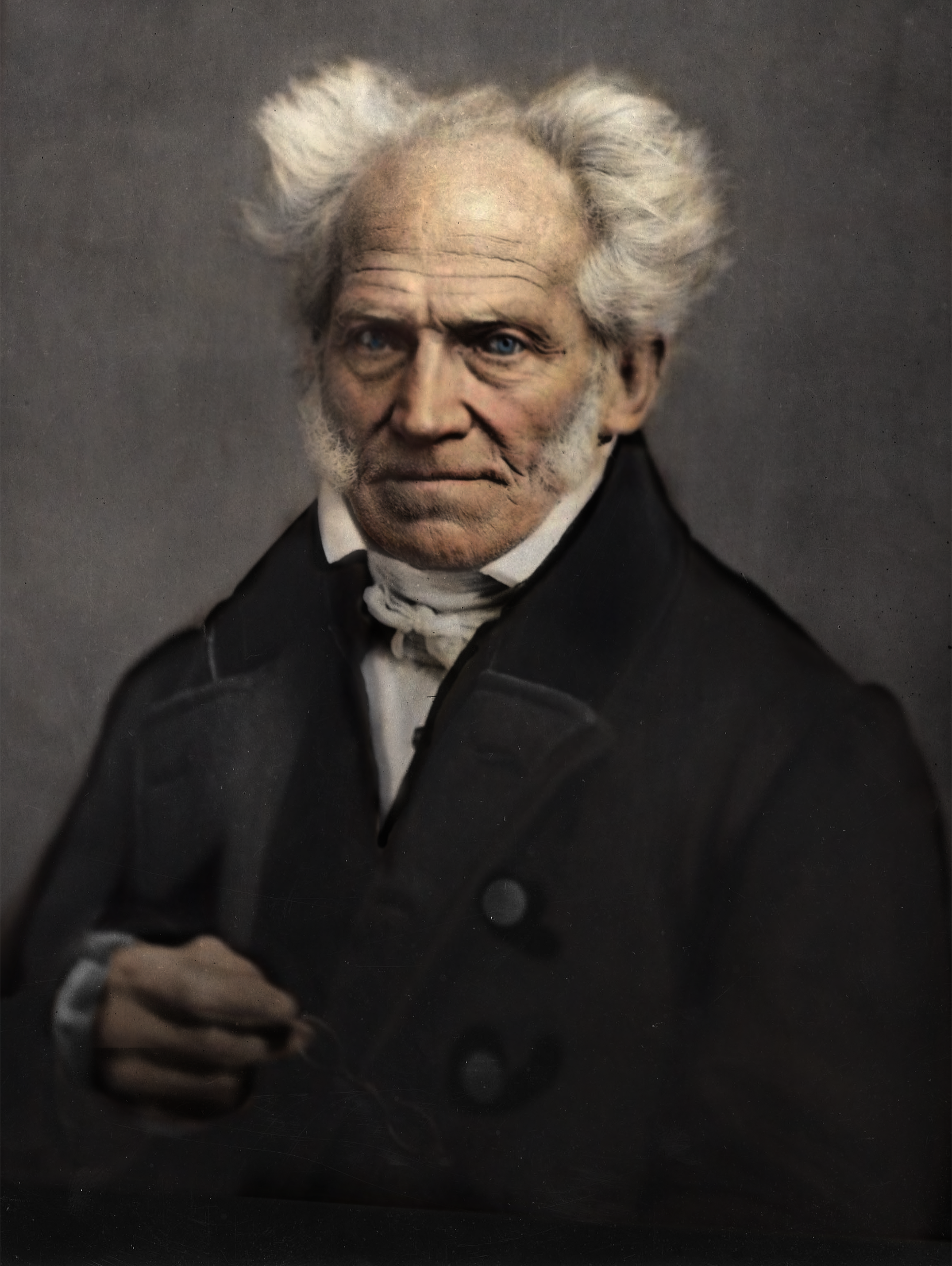 Portrait photograph of Arthur Schopenhauer by Johann Schäfer, 1859